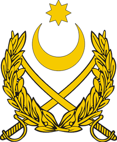 Coat of arms of the Azerbaijani Armed Forces.